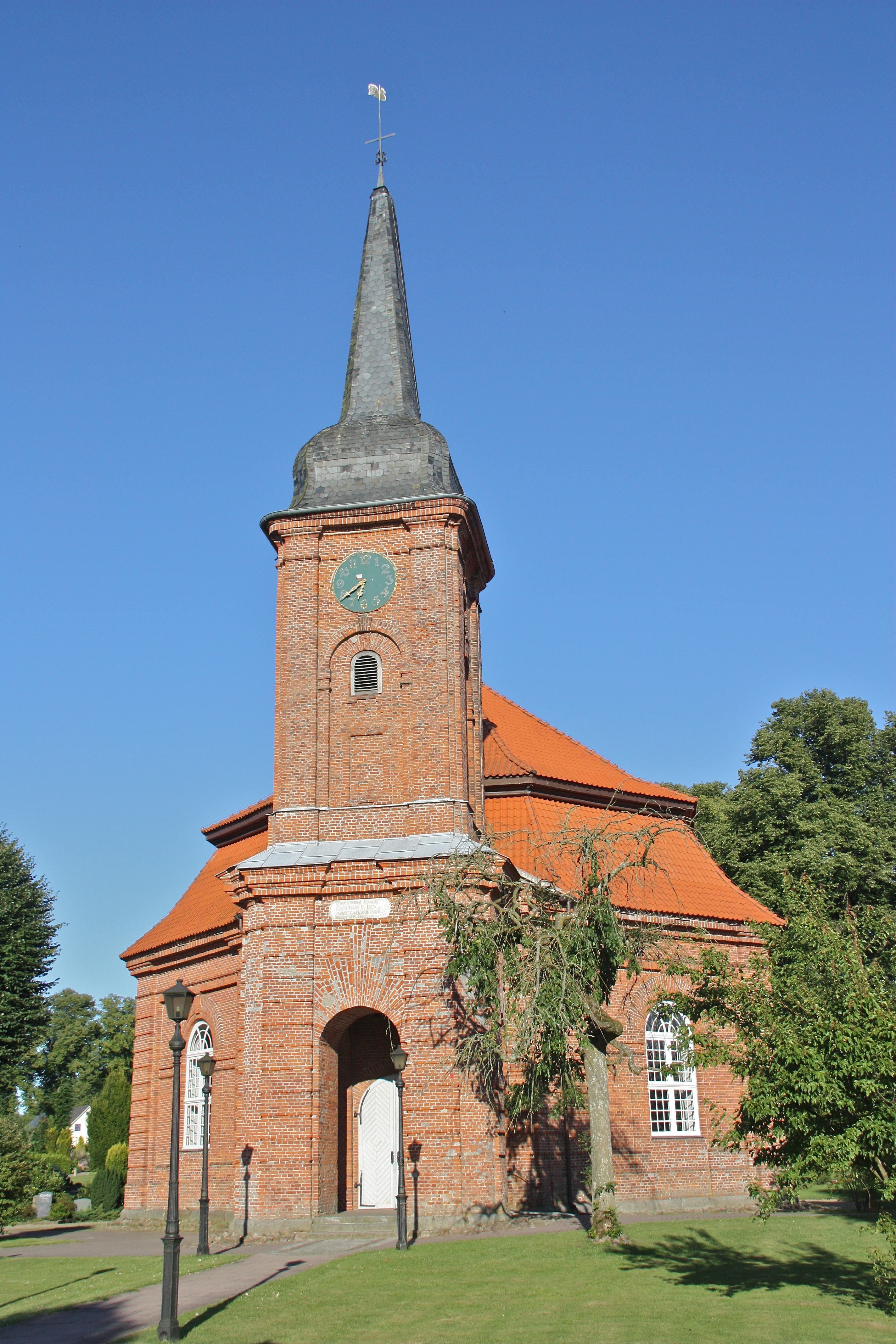 Catherinechurch in Großenaspe, Schleswig-Holstein, Germany. View from the west.